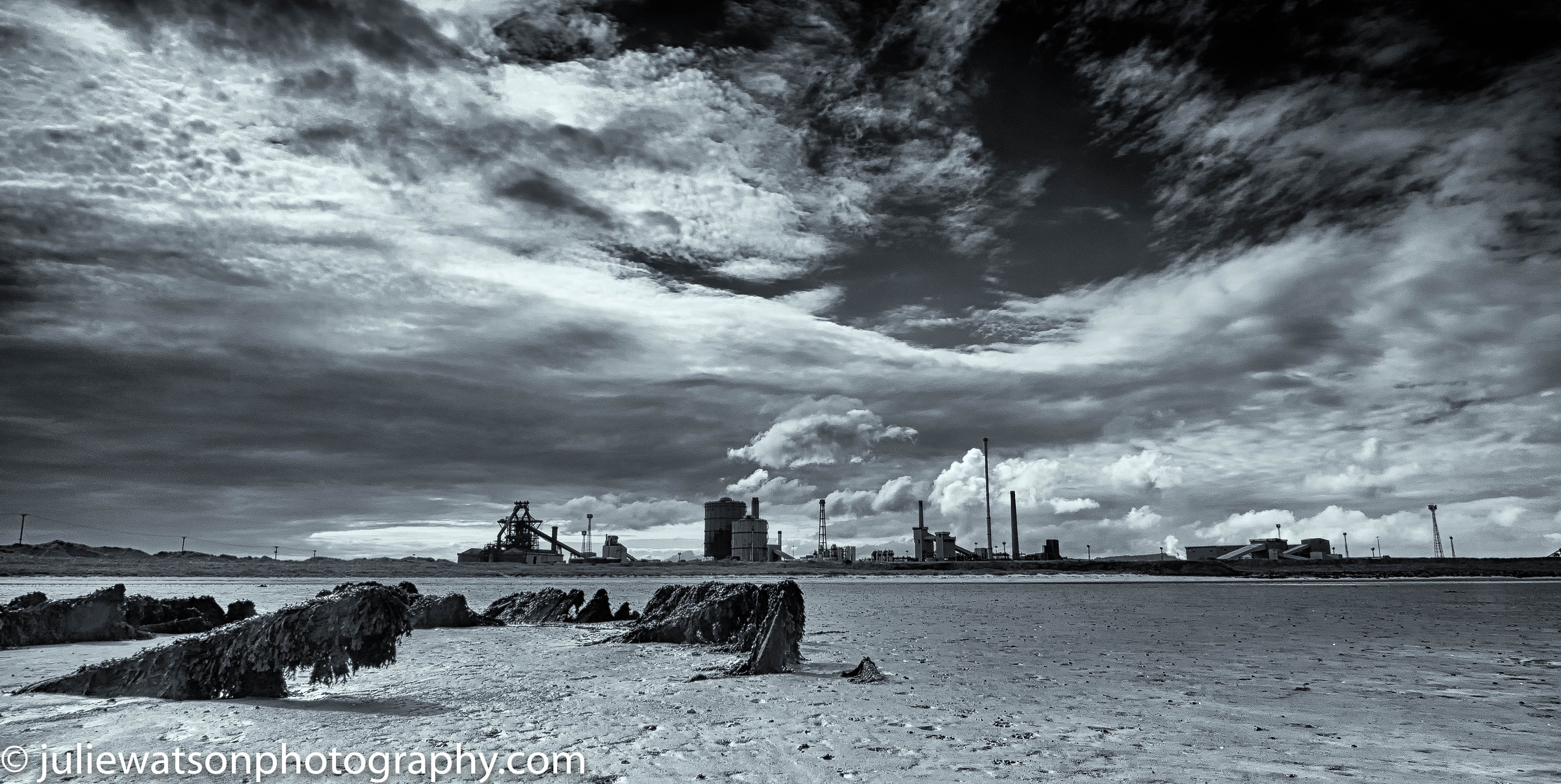 View from Bran Sands across the partially buried Wooden Ship.